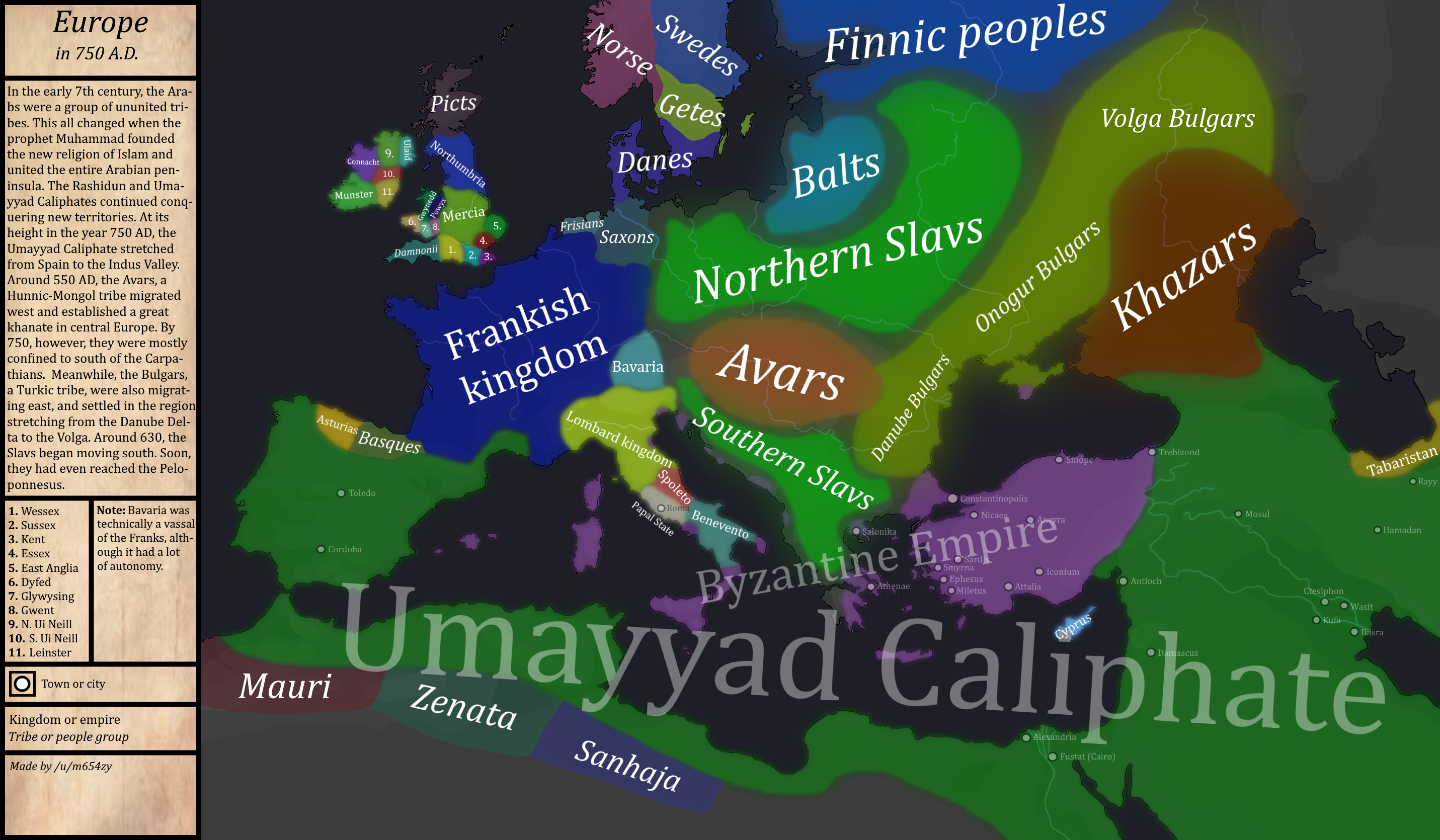 This map shows Europe and the Umayyad Caliphate at its greatest extent in 750 AD.